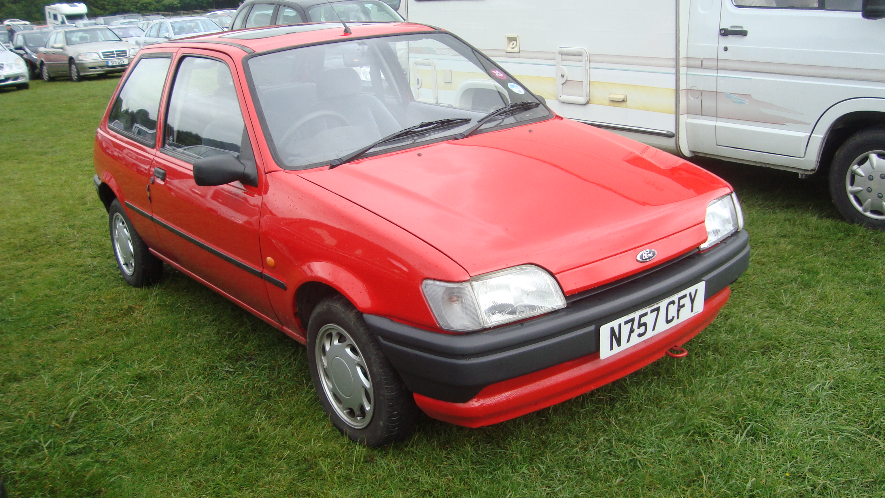 Getting to the stage where all Mk3 Fiesta's are worth a photo, they're one of those cars that just vanished from the road